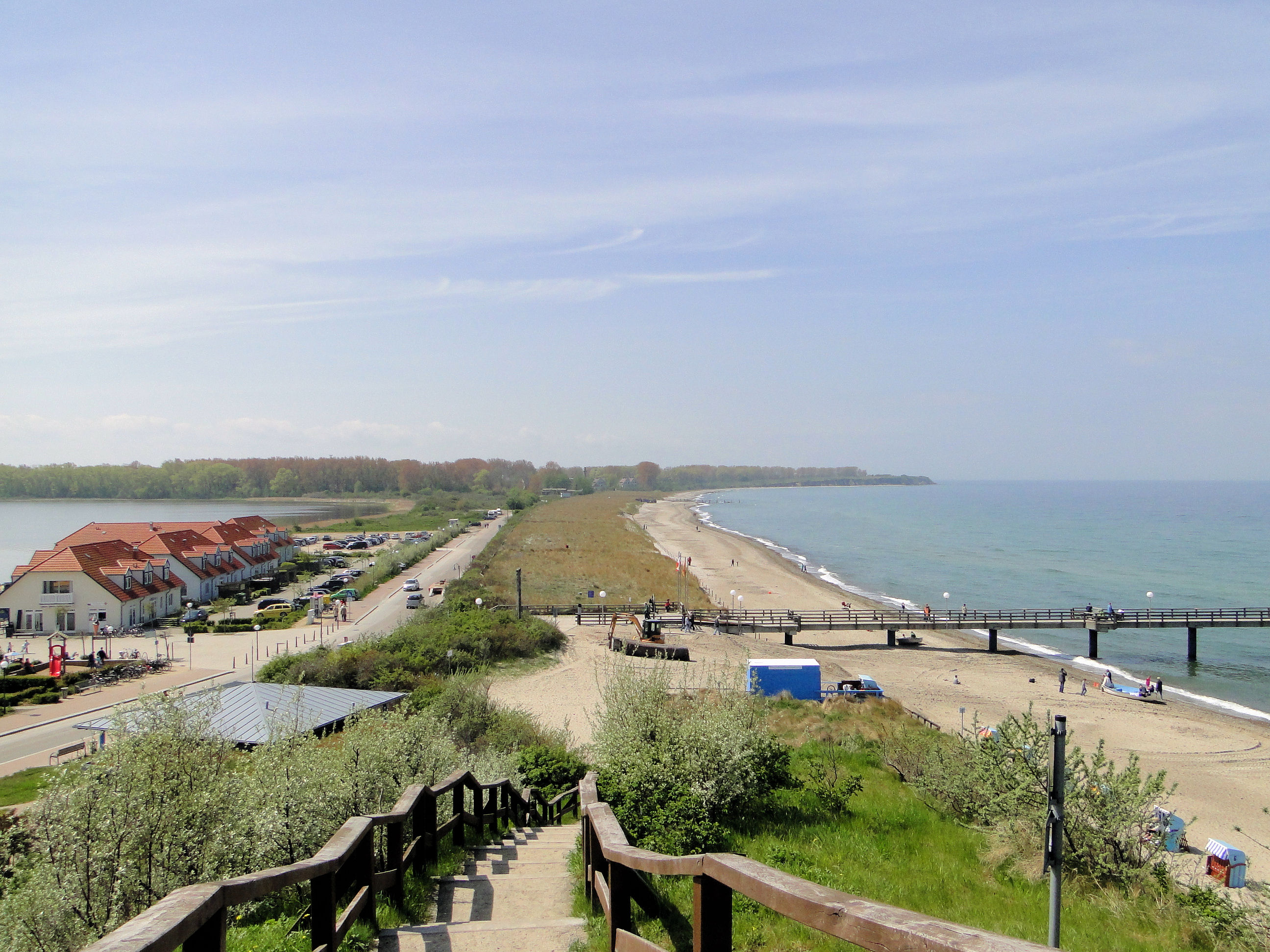 View from Schmiedeberg to the Wustrow Peninsula in Rerik, disctrict Bad Doberan, Mecklenburg-Vorpommern, Germany